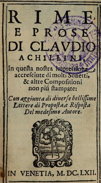 Rhymes and Proses by Claudio Achillini ... 1662